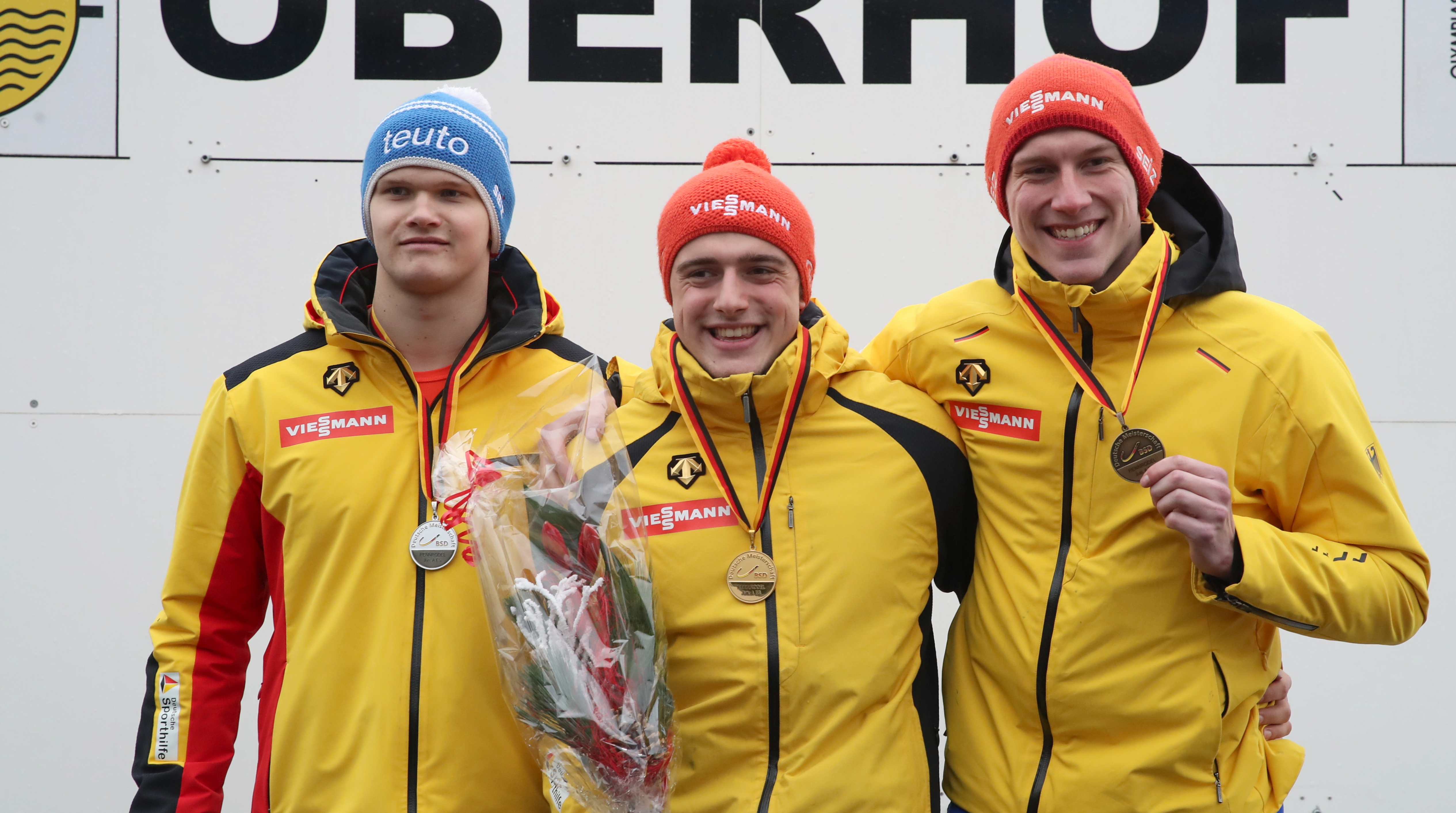 Victory Ceremony at the German Luge Championships 2019 in Oberhof